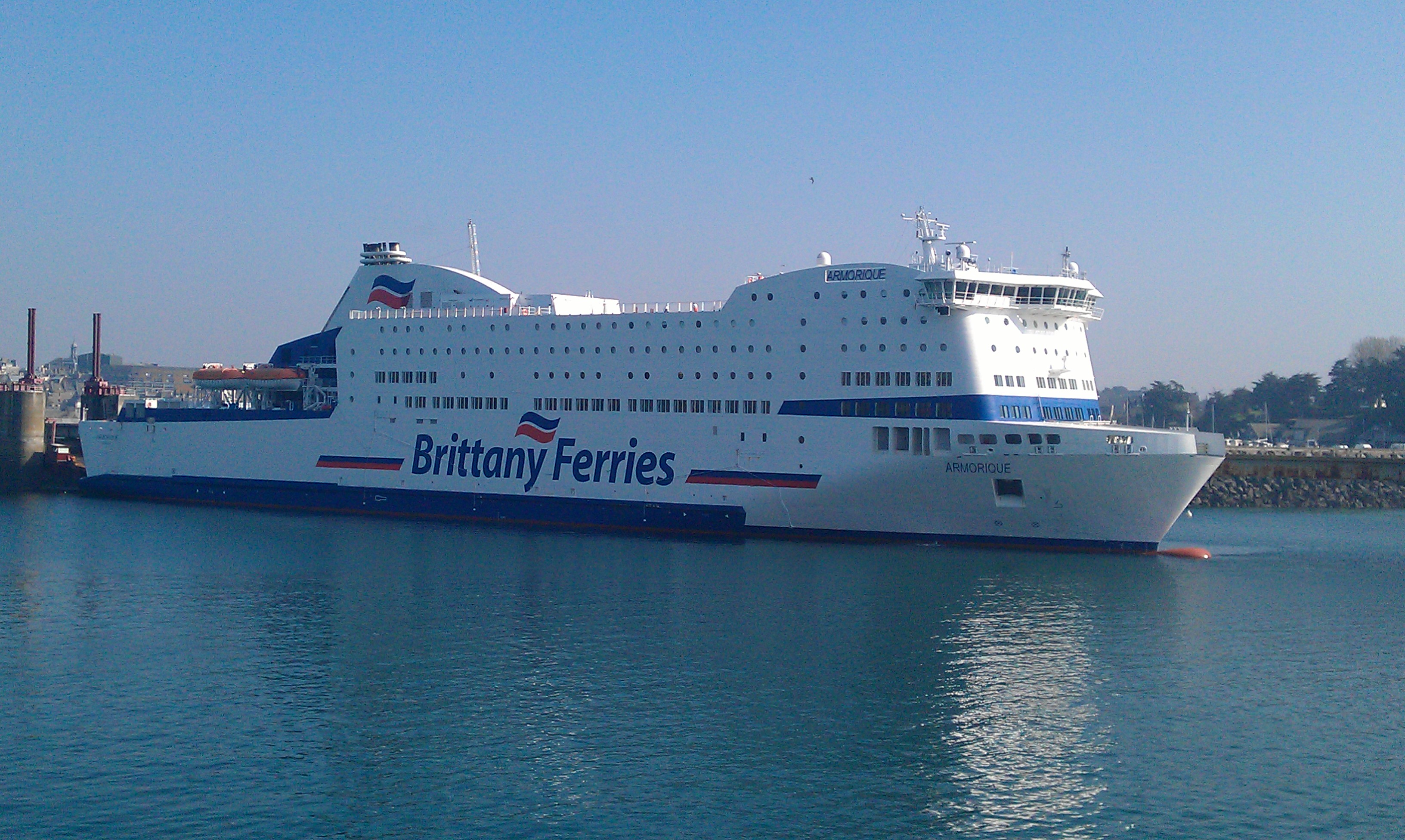 MV Armorique berthed at Saint Malo